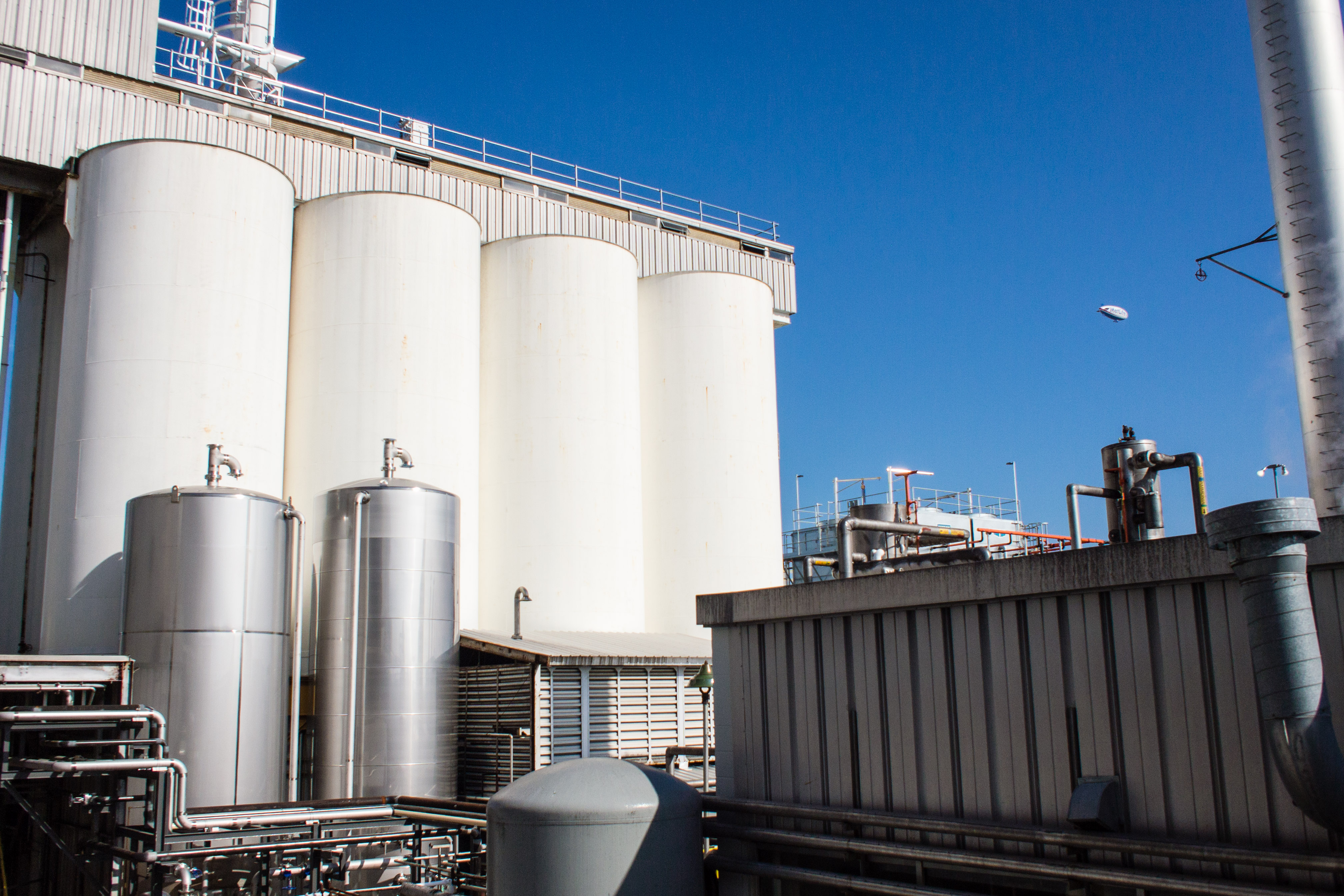 Yuengling Brewery Tampa Jan 2013, OLYMPUS DIGITAL CAMERA